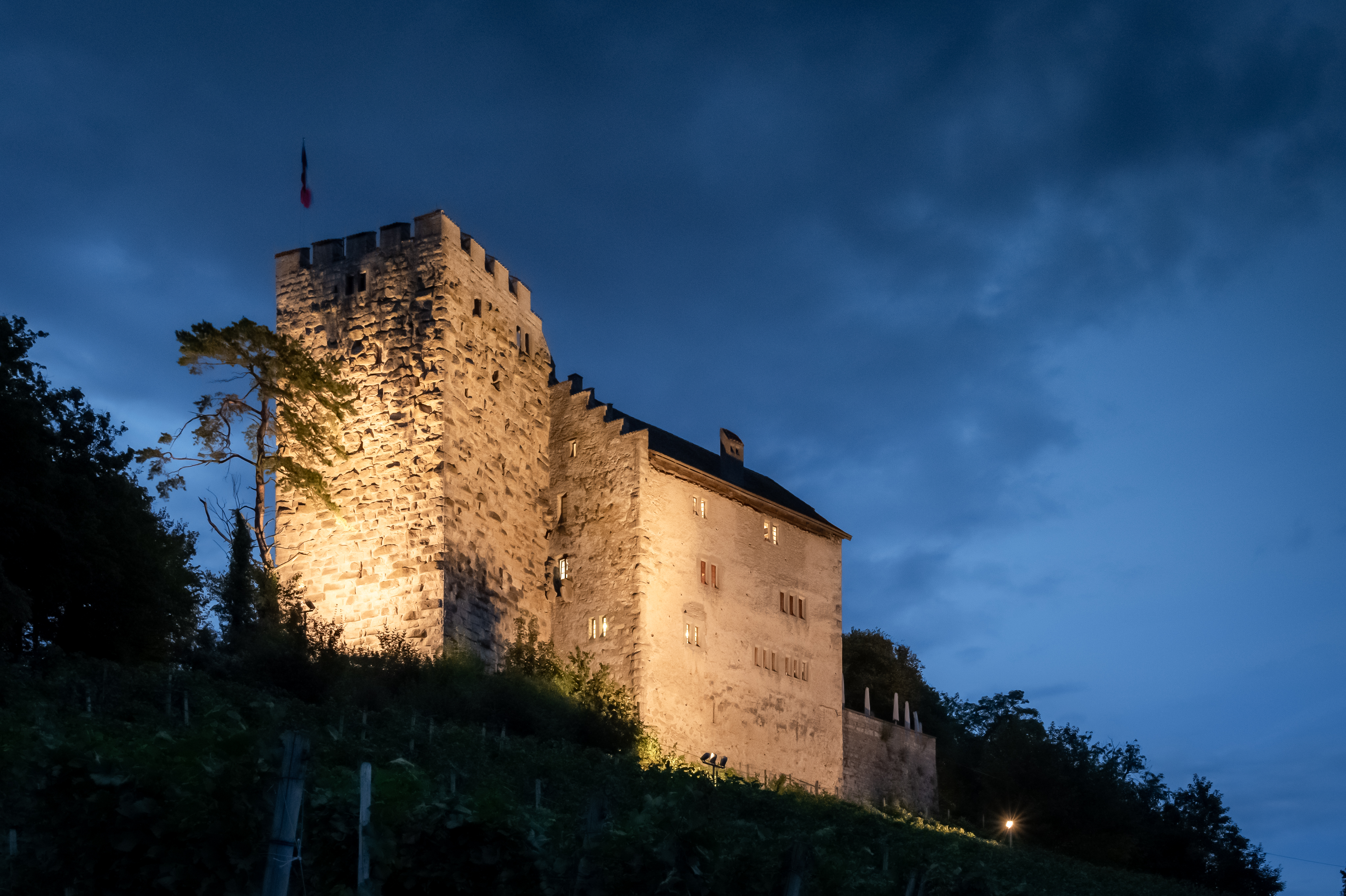 Habsburg Castle (view from south), Community of Habsburg, canton Aargau, Switzerland